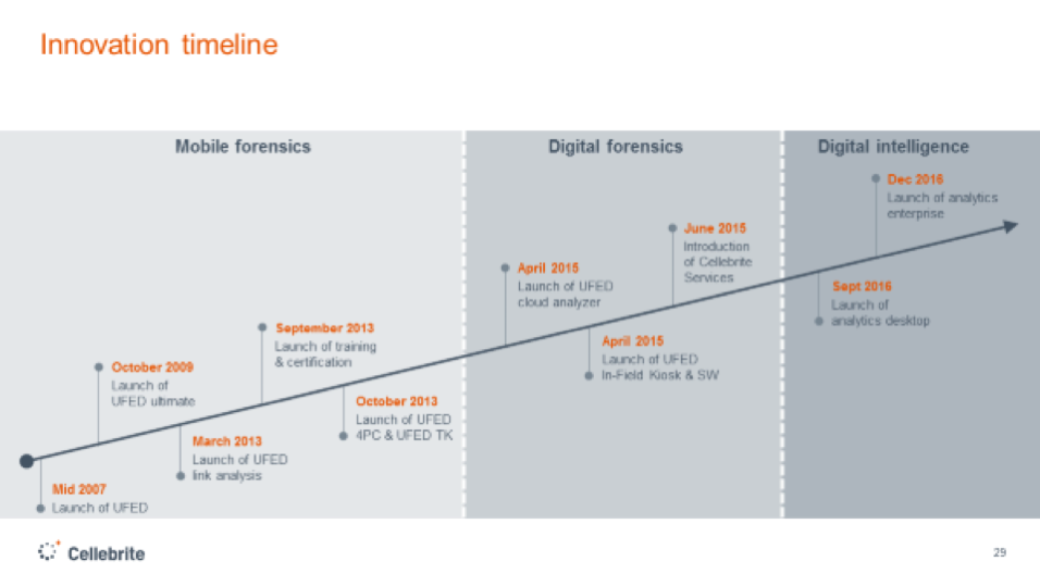 Cellebrite UFED consistently brings critical mobile forensic capabilities first to the lab and field, and many of these capabilities remain unmatched for months or years. Many remain unmatched today.